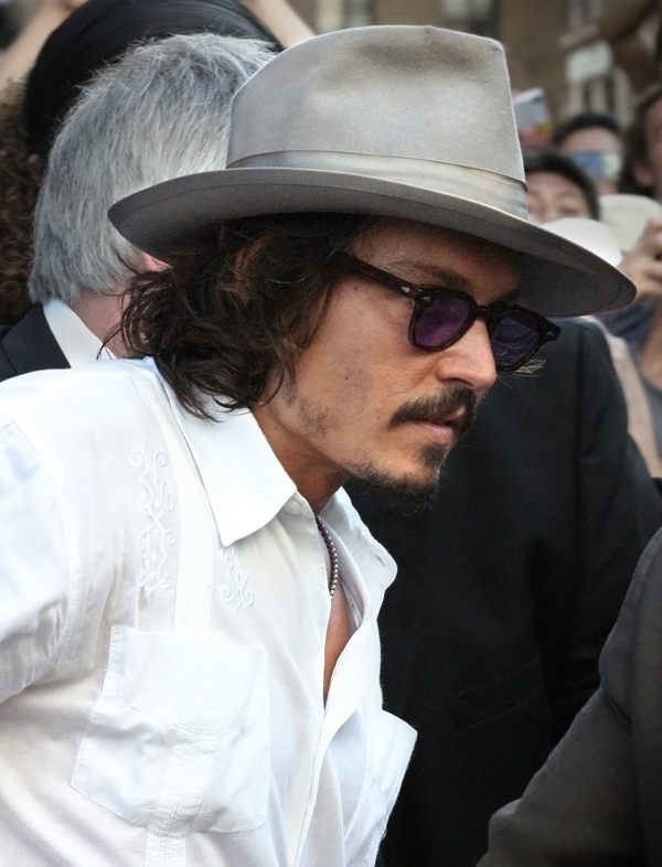 Johnny Depp at the Pirates of the Caribbean: Dead Man's Chest London premiere (Portrait Size)